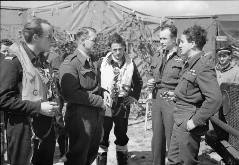 Group Captain A G Malan (second from left), Commanding Officer of No 145 (Free French) Wing discusses the operational situation on the morning of 'D-Day' with some of his pilots at Merston, Sussex. On the left stands Free French pilot, Lieutenant Raoul Duval; second from the right is the Wing Leader, Wing Commander W V Crawford-Compton; third right is Commandant C Martell, Commanding Officer of No. 341 (Free French) Squadron RAF.